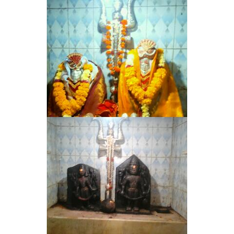 काळ भैरवनाथ